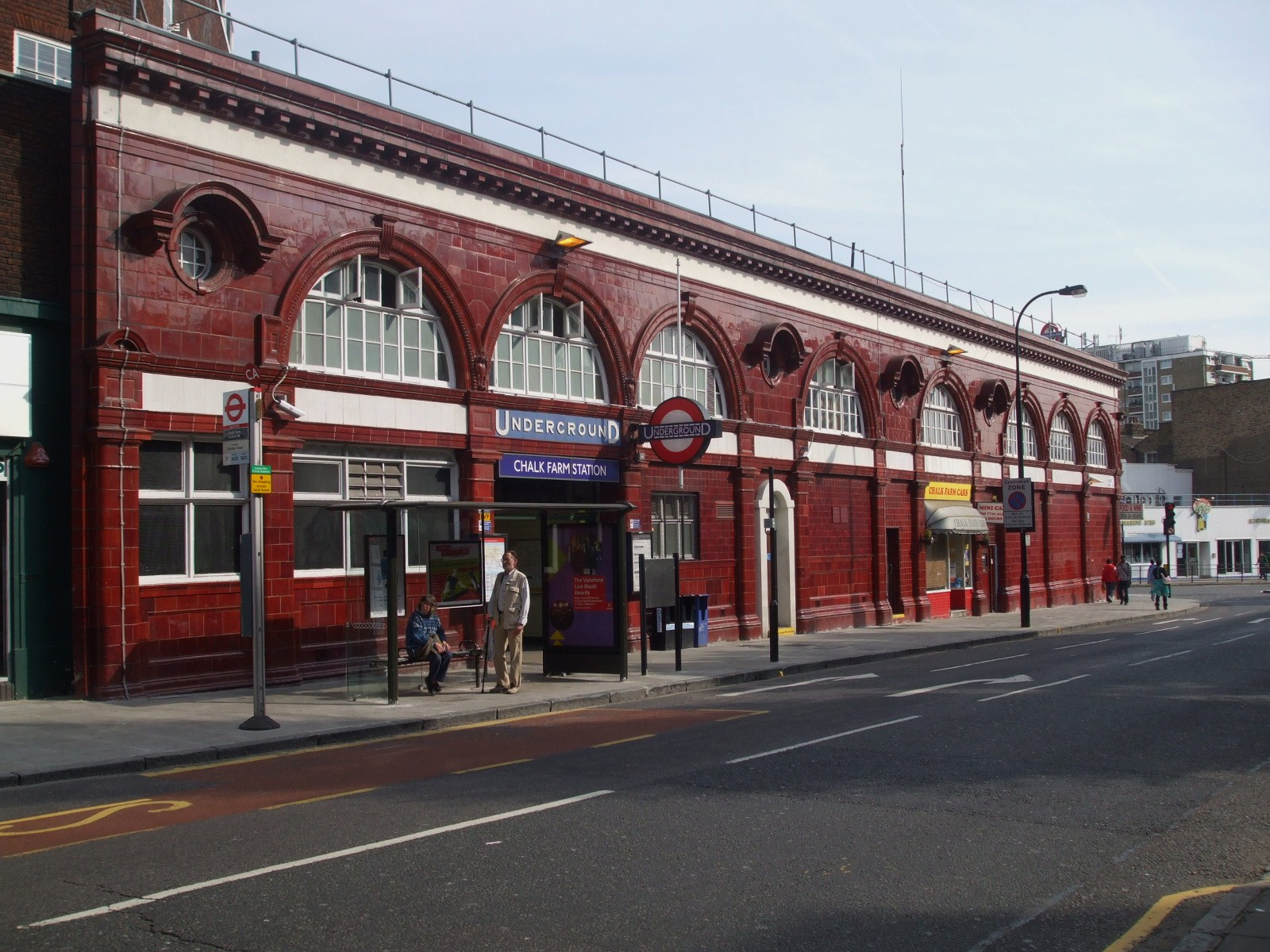 Chalk Farm tube station building